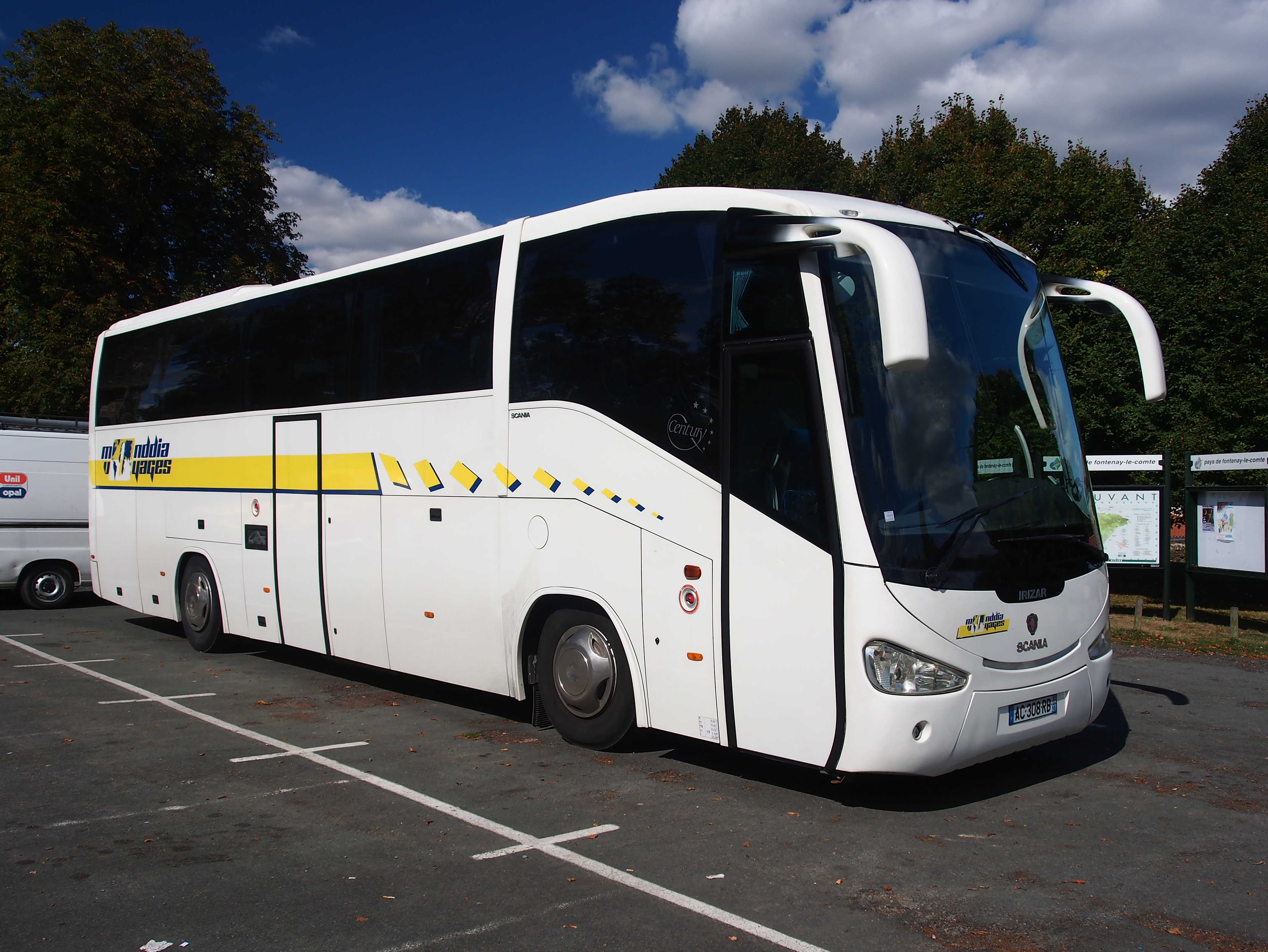 Photographed in France.